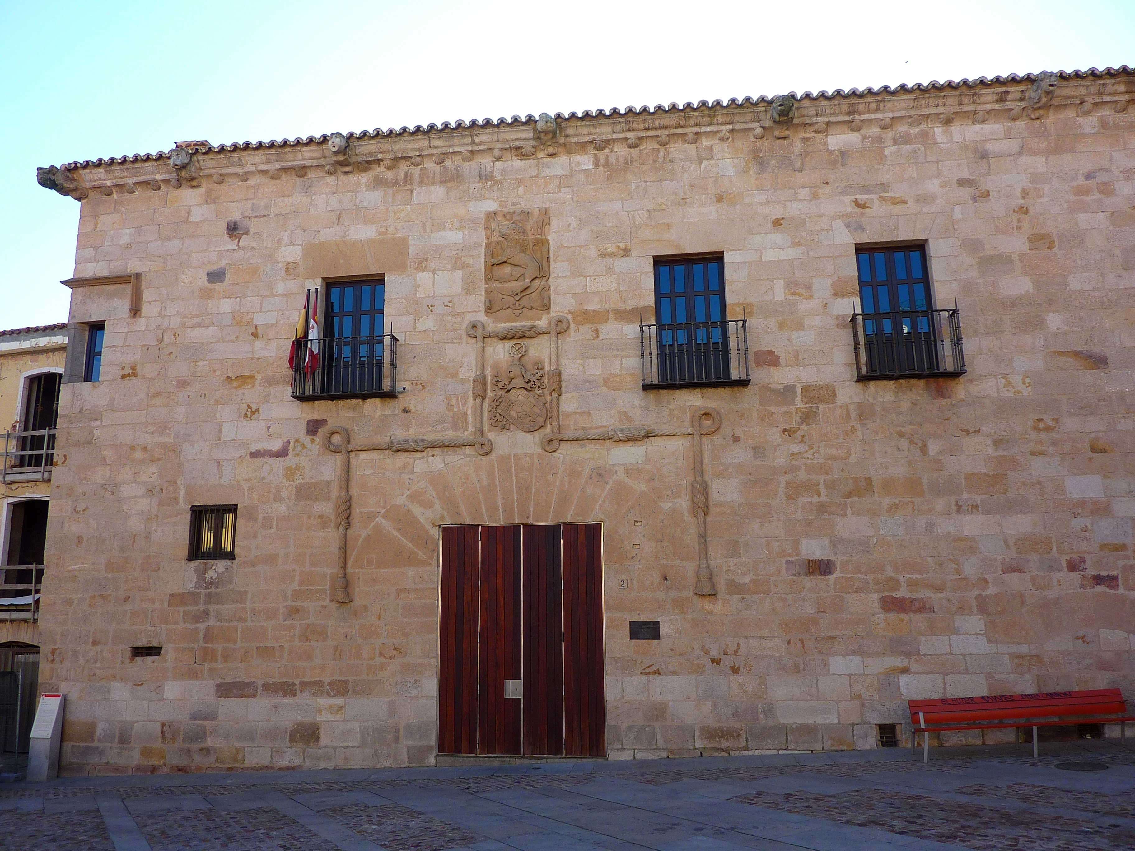 Palacio del Cordón, Zamora, Spain.